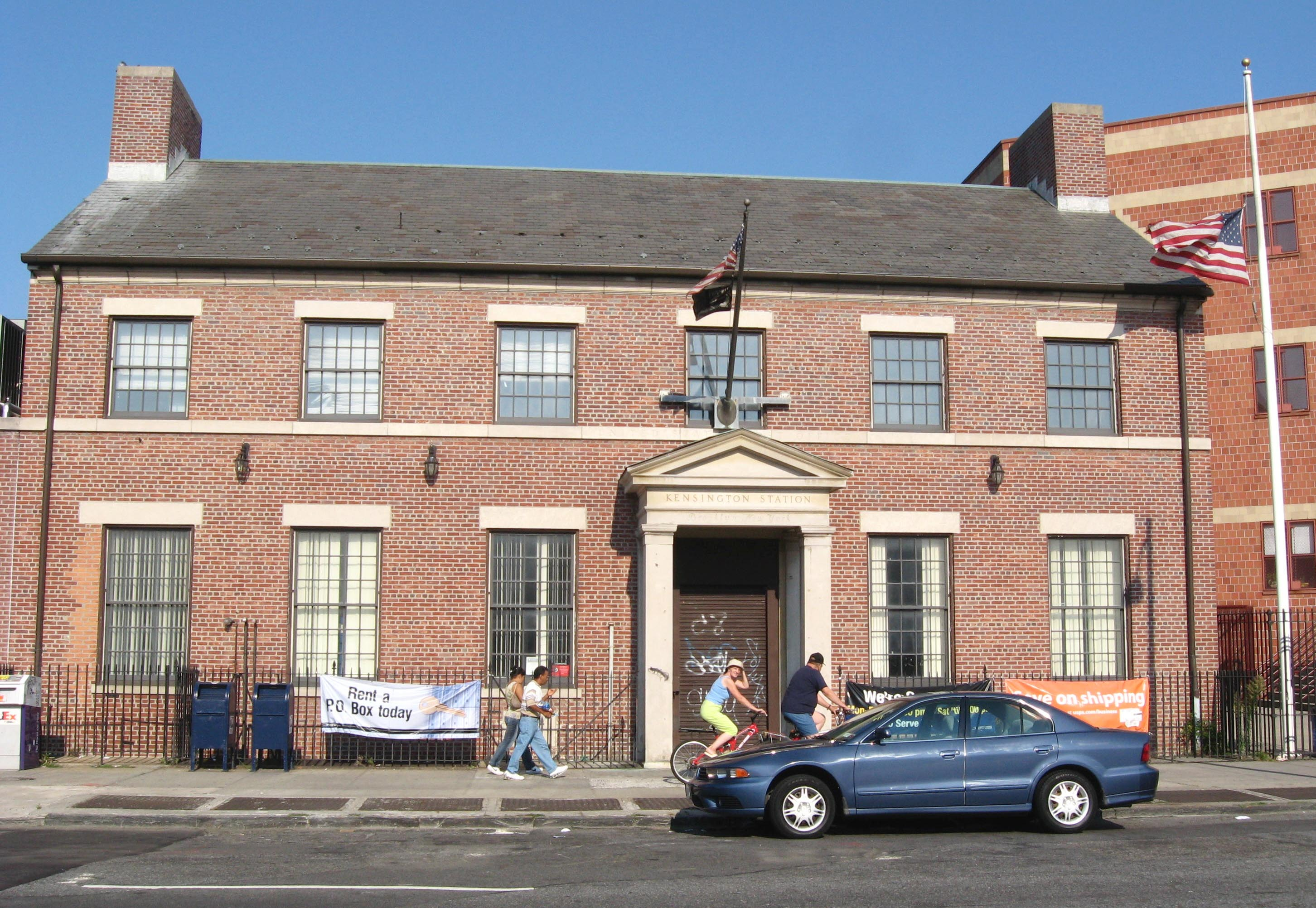 Looking east across McDonald Avenue at Post Office of Kensington, Brooklyn on a sunny afternoon. ZIP 11218.